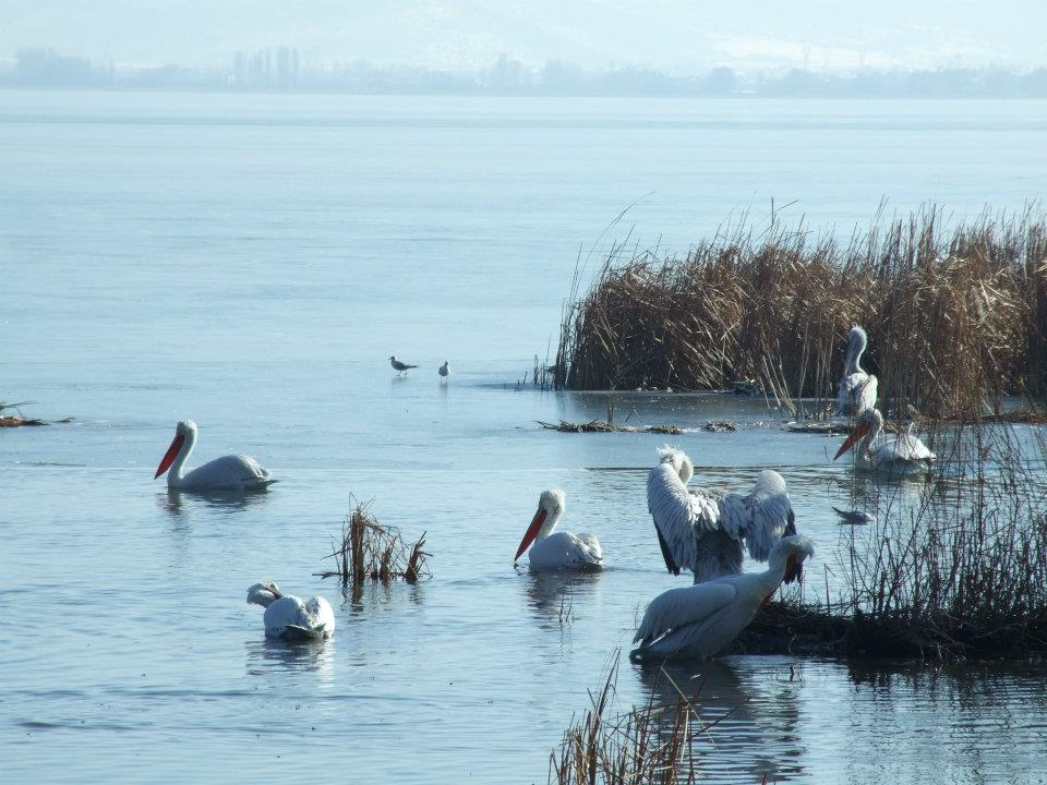 Dalmatian Pelicans at Kastroria Lake, Greece